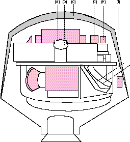 Drawing of Biosatellite 2 (Cross section)